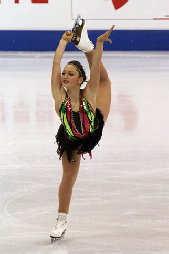 \Elene GEDEVANISHVILI at the 2009 World Figure Skating Championships.